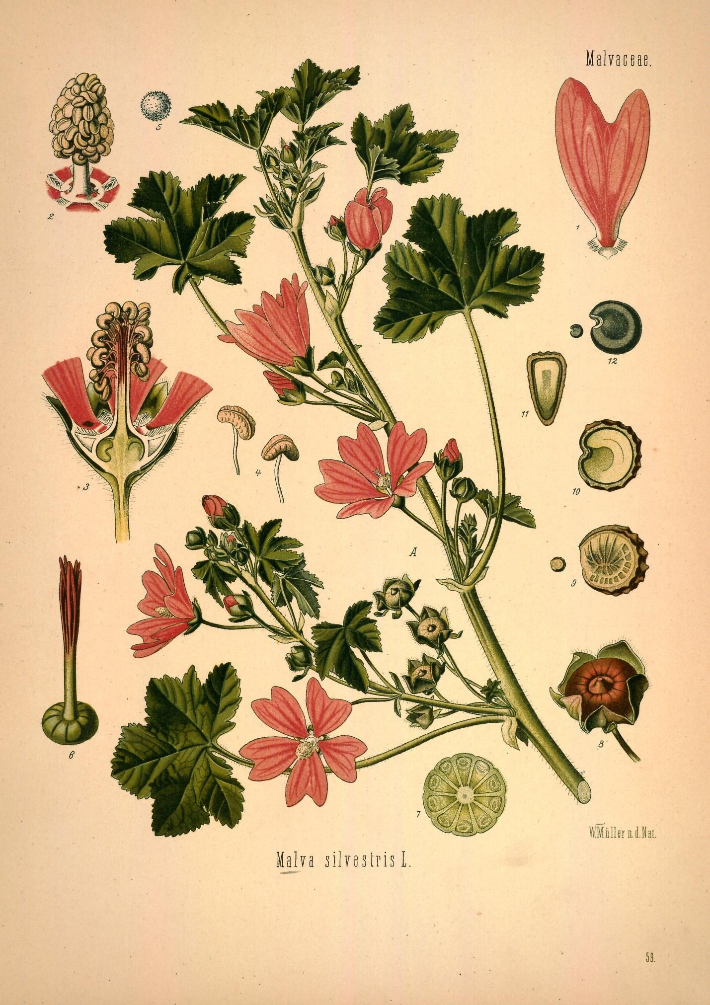 Illustration of Malva silvestris L. 59 (Malva sylvestris L., high mallow)